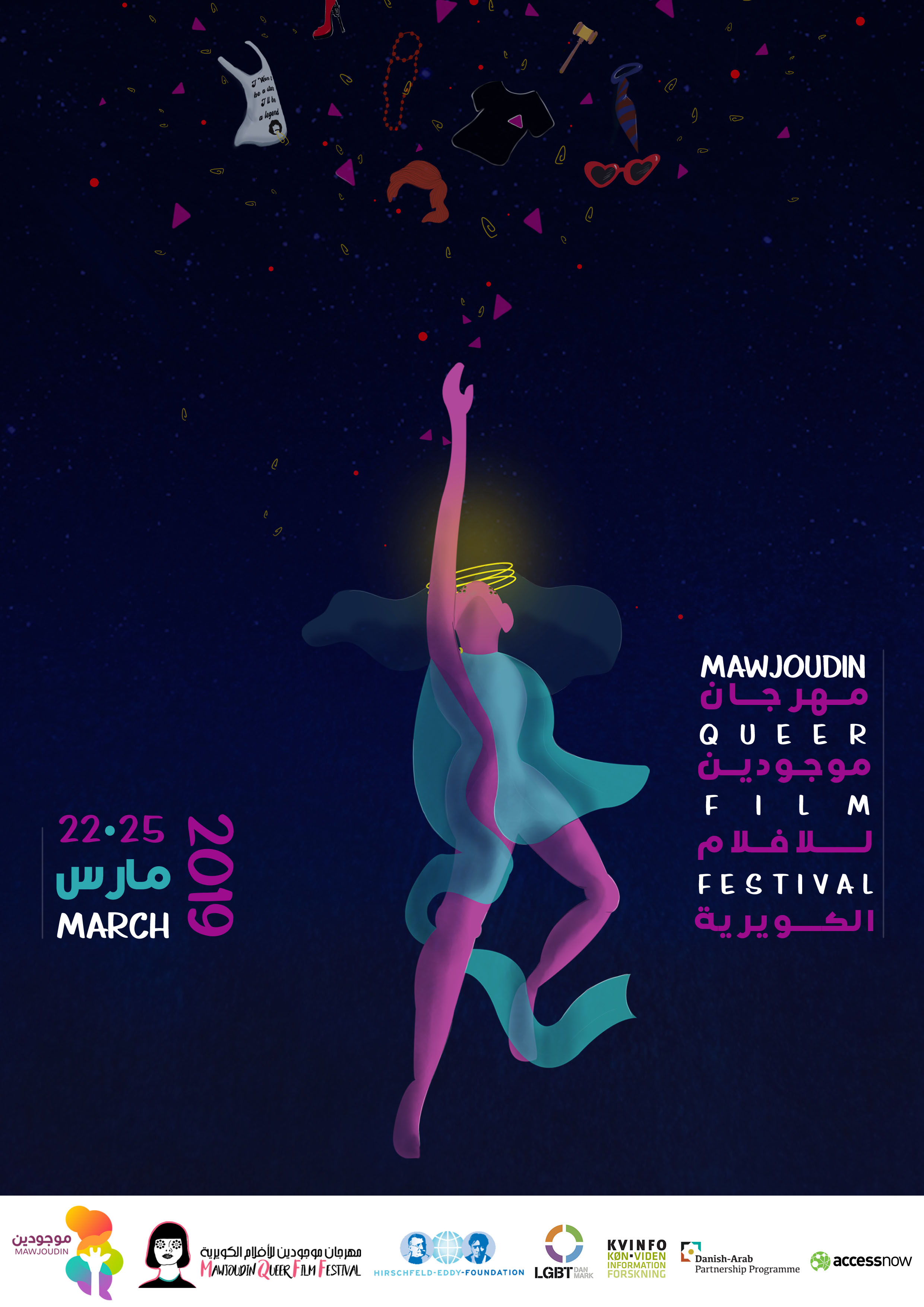 This is the official poster of the second edition of the Mawjoudin Queer Film Festival that was held in Tunis, Tunisia between March 22-25th 2019. This festival is a project of the Tunisian non-governmental organization Mawjoudin (We Exist).